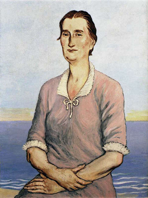 Photography of portrait of Céleste Albaret, French writer Marcel Proust's maid, by French painter Jean-Claude Fourneau (oil on canvas, 1957).